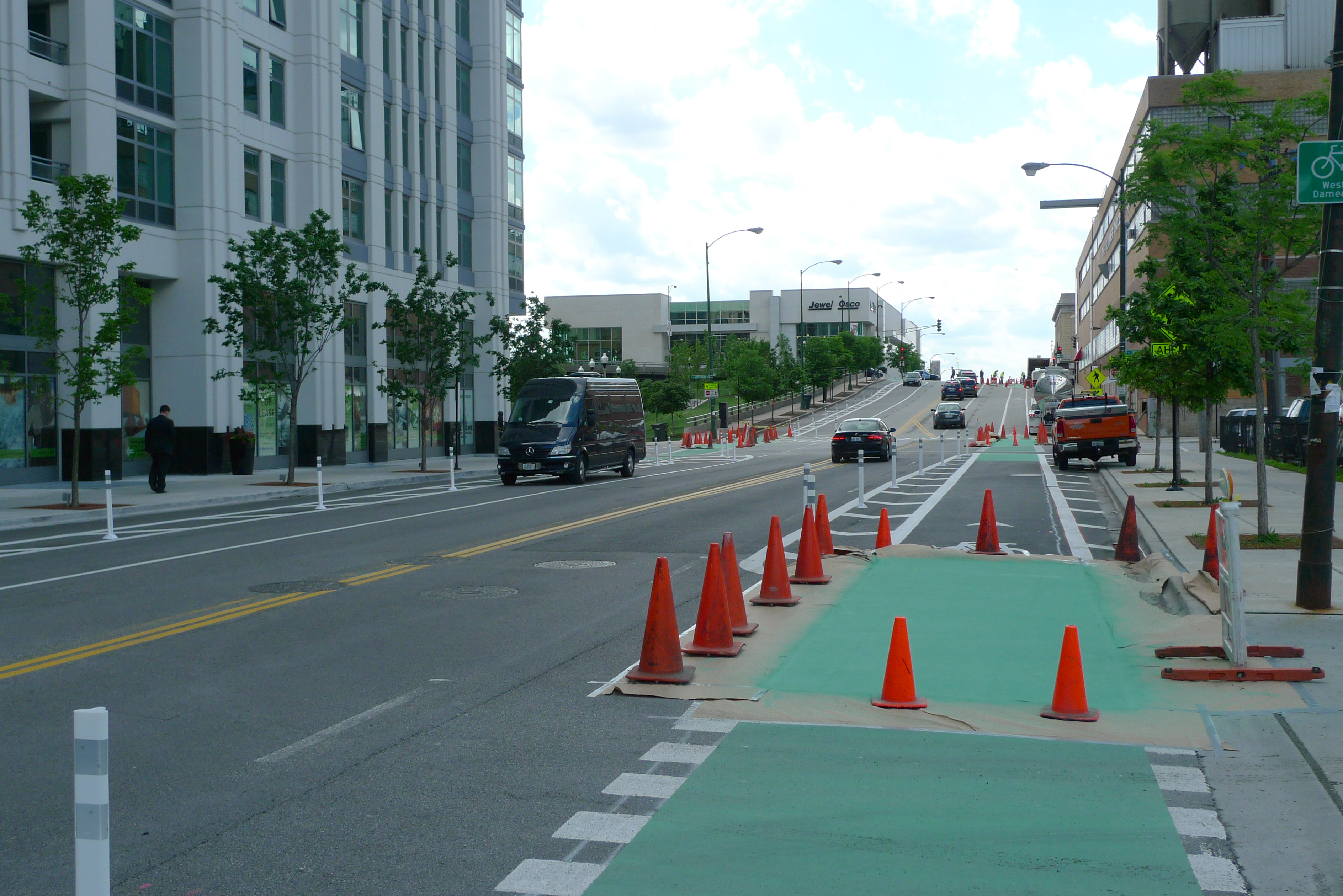 Kinzie Construction Day 9